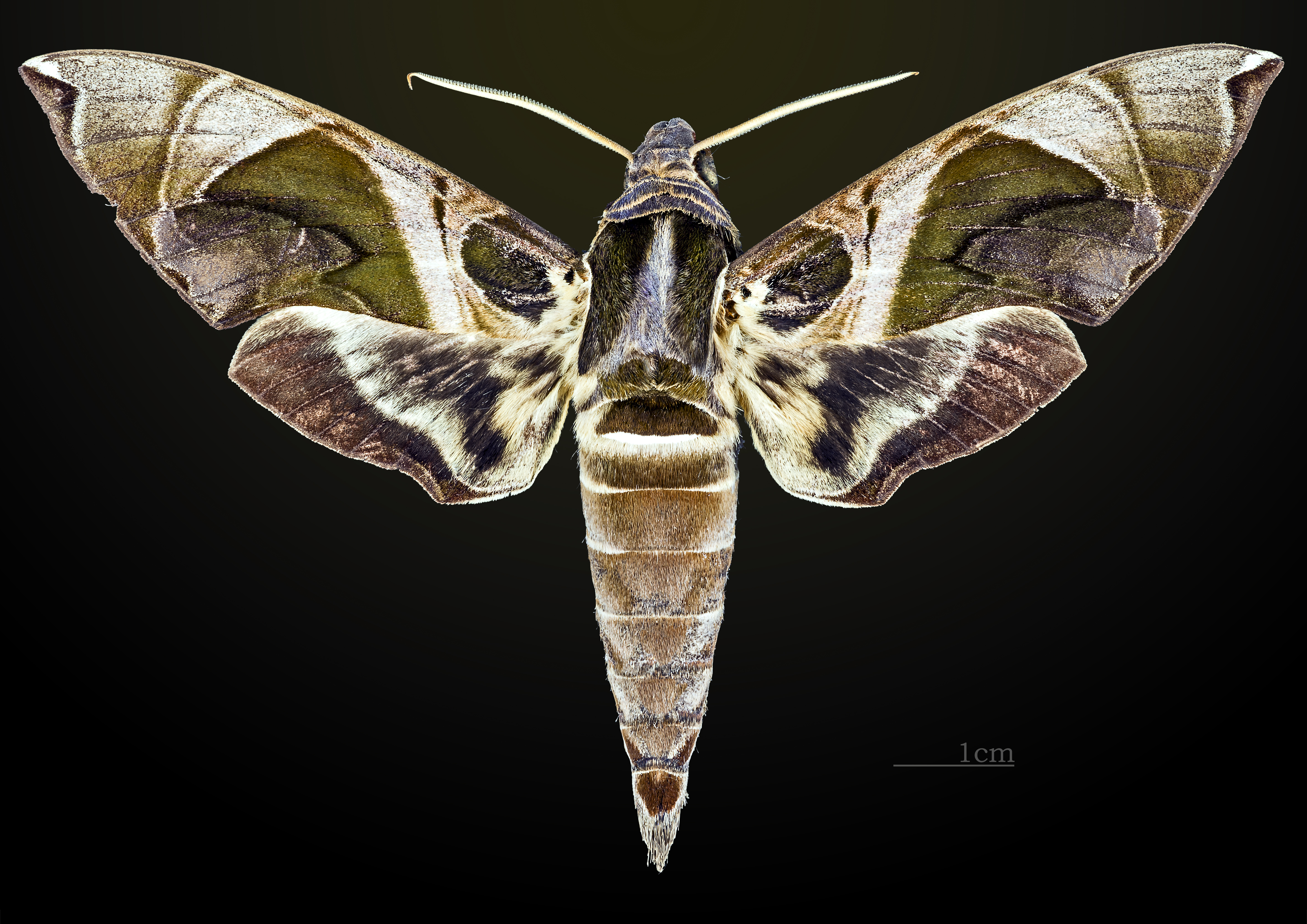 Daphnis moorei - Dorsal side Collection of the Mathematician Laurent Schwartz